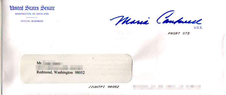 Franked letter from U.S. Senator Maria Cantwell to a constituent.